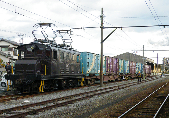 Roadswitcher type ED50(No.501) at Gakunan Harada Sta., Fuji city, Japan.